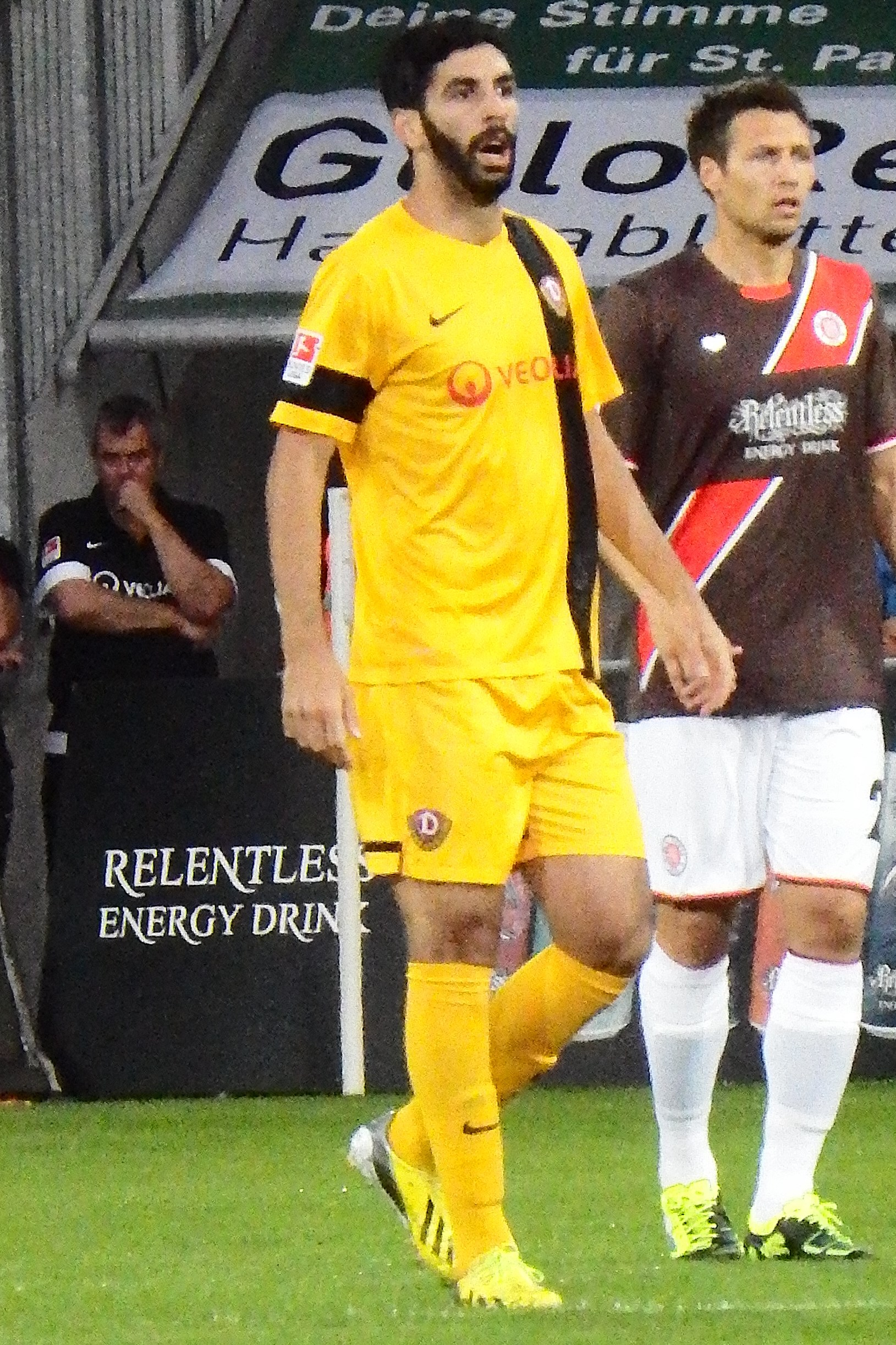 Mohamed Aoudia as Player of Dynamo Dresden